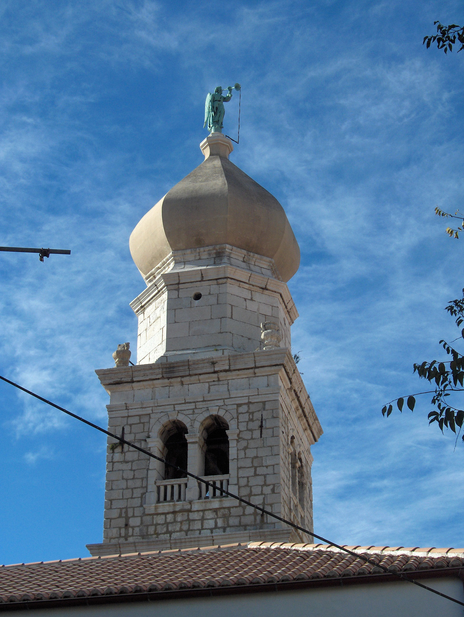 Bell tower of the Church of the Assumption, Krk, on the island of Krk, Croatia